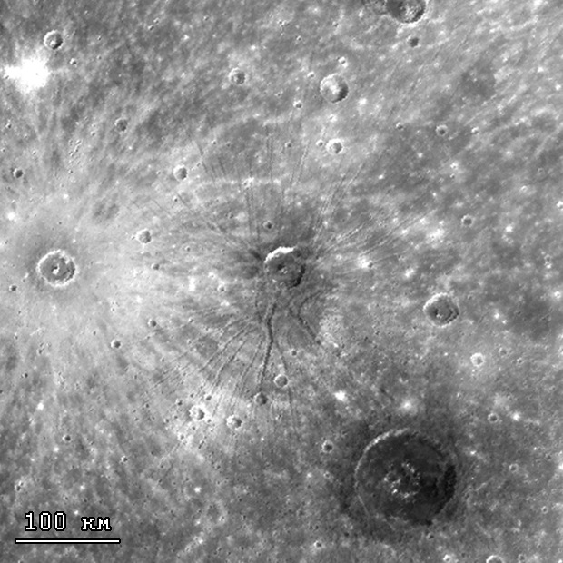 A remix of Caloris Basin comparison.jpg which is also in the public domain (cropped and corrected brightness levels). Part of Caloris Planitia (Mercury) with Pantheon Fossae in the center. Brightness levels adjusted on computer to enhance contrast.